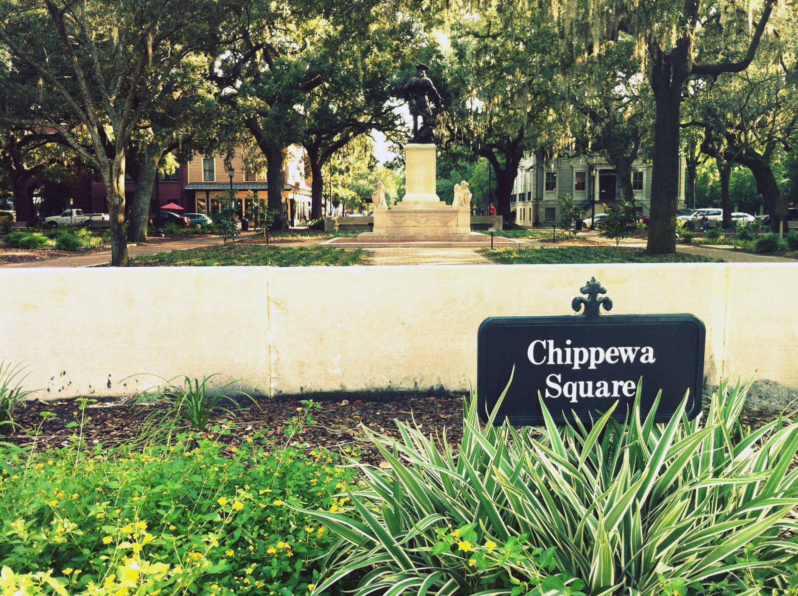 Chippewa Square in Savannah, Georgia. View from W Hull Street.